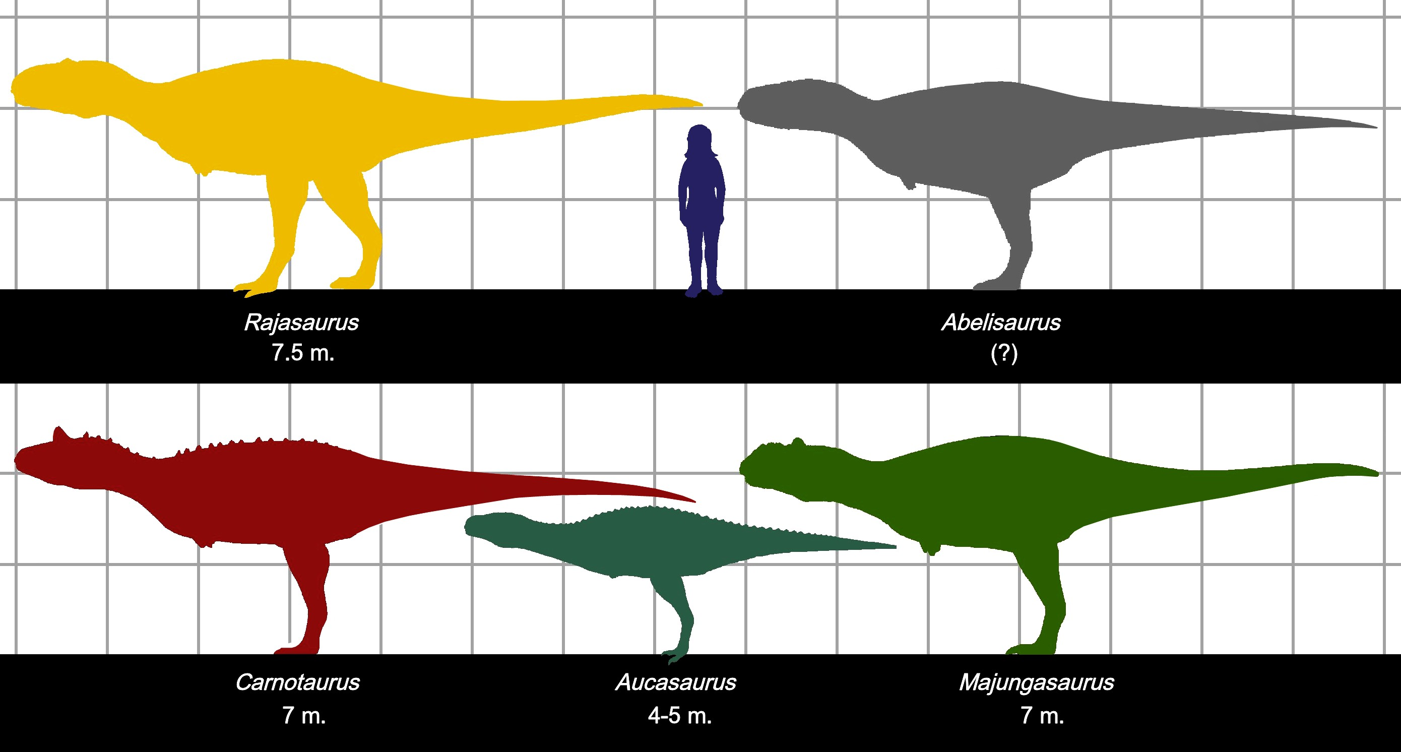 Size comparison of different members of the theropod dinosaur family abelisauridae. The scale checkers is in meters.